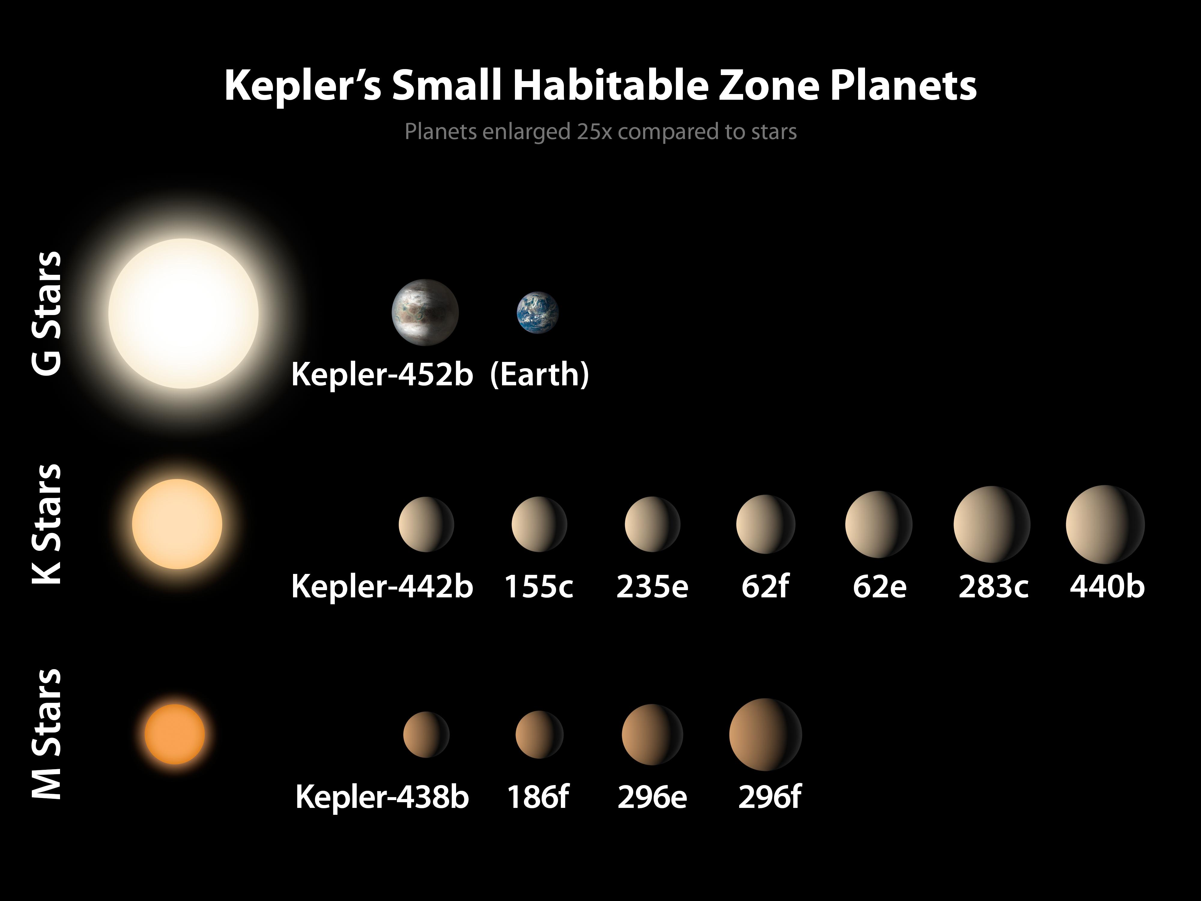 PIA19827: Kepler's Small Habitable Zone Planets Of the 1,030 confirmed planets from Kepler, a dozen are less than twice the size of Earth and reside in the habitable zone of their host stars. In this diagram, the sizes of the exoplanets are represented by the size of each sphere. These are arranged by size from left to right, and by the type of star they orbit, from the M stars that are significantly cooler and smaller than the sun, to the K stars that are somewhat cooler and smaller than the sun, to the G stars that include the sun. The sizes of the planets are enlarged by 25 times compared to the stars. The Earth is shown for reference. NASA Ames manages Kepler's ground system development, mission operations and science data analysis. NASA's Jet Propulsion Laboratory in Pasadena, Calif., managed Kepler mission development. Ball Aerospace & Technologies Corp. in Boulder, Colo., developed the Kepler flight system and supports mission operations with JPL at the Laboratory for Atmospheric and Space Physics at the University of Colorado in Boulder. The Space Telescope Science Institute in Baltimore archives, hosts and distributes the Kepler science data. Kepler is NASA's 10th Discovery Mission and is funded by NASA's Science Mission Directorate at the agency's headquarters in Washington. More information about the Kepler mission is at More information about exoplanets and NASA's planet-finding program is at